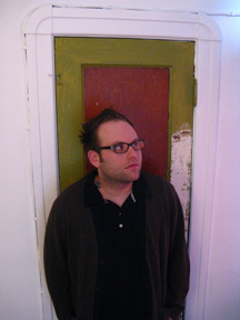 author photo of Jon Paul Fiorentino, Canadian writer